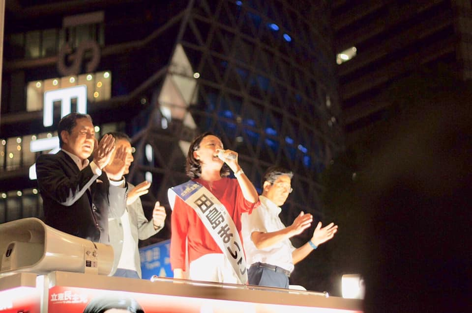 Last day of 25th Upper House Election in Aichi, Japan